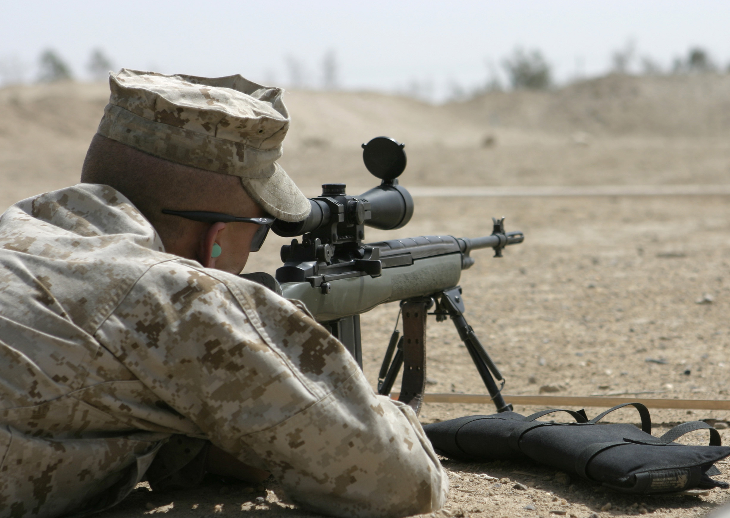 A Marine with 2nd Fleet Anti-Terrorism Security Team Company, Marine Corps Security Force Battalion, prepares to fire his M14 DMR sniper rifle during a battle sight zero exercise here April 21. Unit members practiced adjusting their weapons’ sights and firing the rifles aboard 1st Battalion, 6th Marine Regiment’s range here to maintain their proficiency while providing security for convoys here.